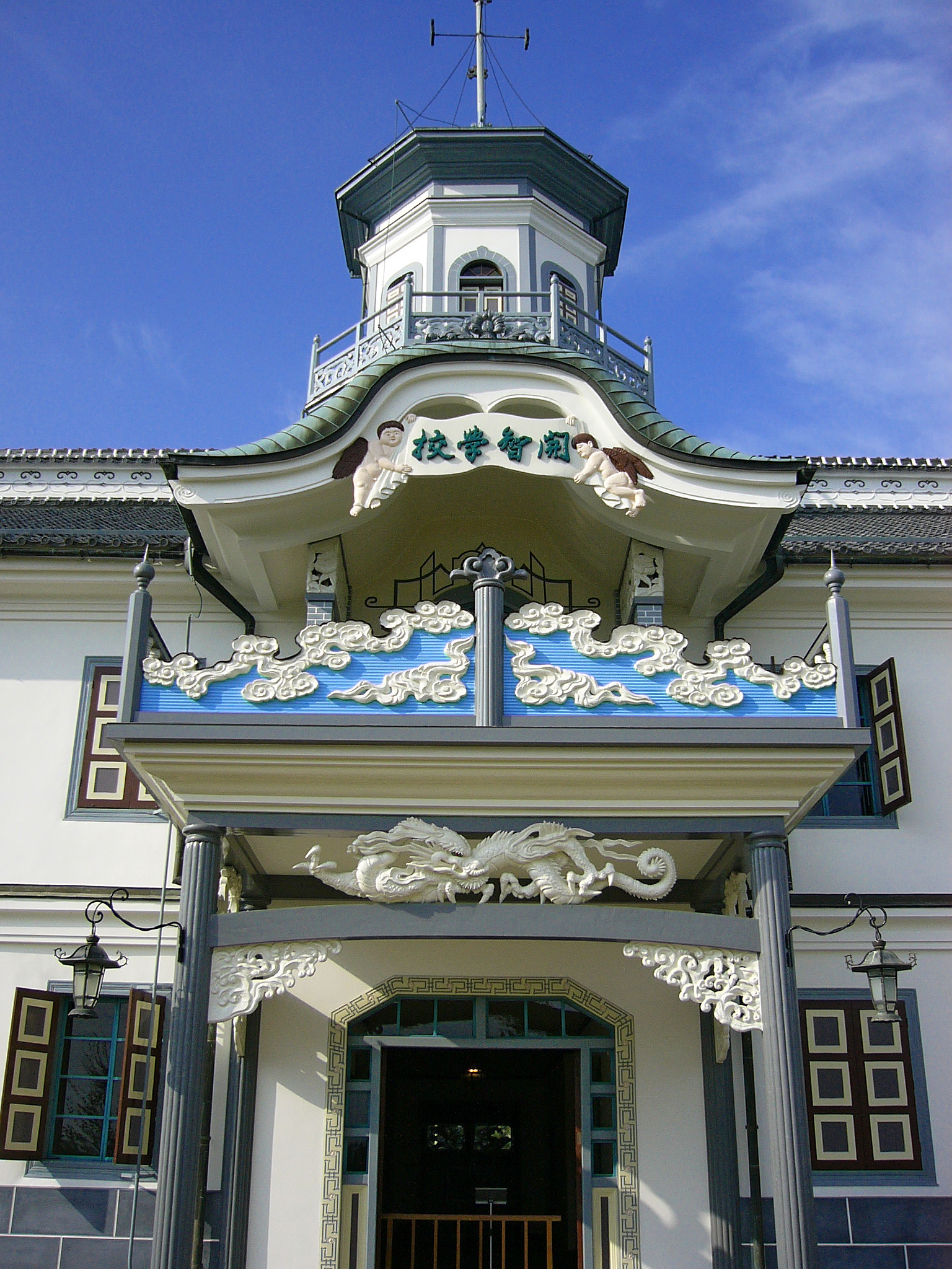 Former Kaichi School in Matsumoto, Nagano prefecture, Japan